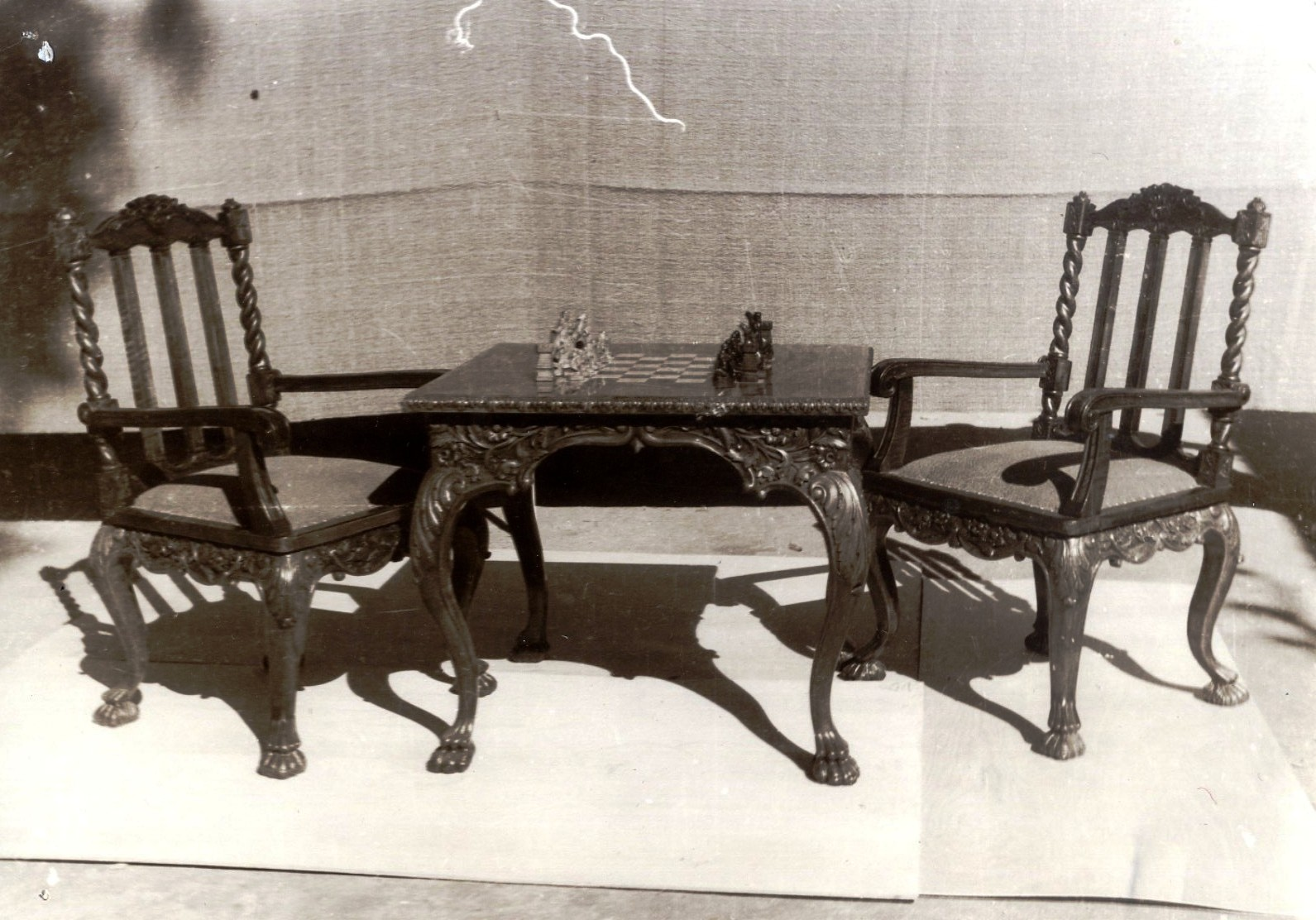 Ohrid carpentry, fond Nikola German. This media file is produced by Wikipedian in Residence in Category:Wikipedian in Residence at DARM in 2017.